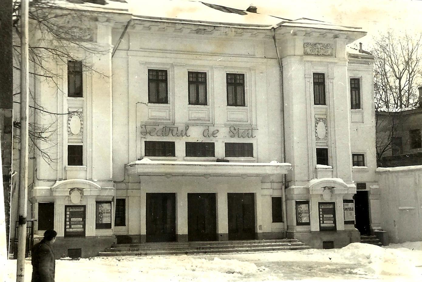 The former theater "Odeon" Ploiesti as it still existed in 1970. It was located in the strada Toma Caragiu (the street was renamed several times). Completely rebuilt by the Communists, the building no longer exists. In its place, there is another building hosting the theater "Toma Caragiu". Architect : Toma T. Socolescu. Its construction was completed in 1928. This picture has been published on by Lucian Vasile. The author is Eugen Paveleț.